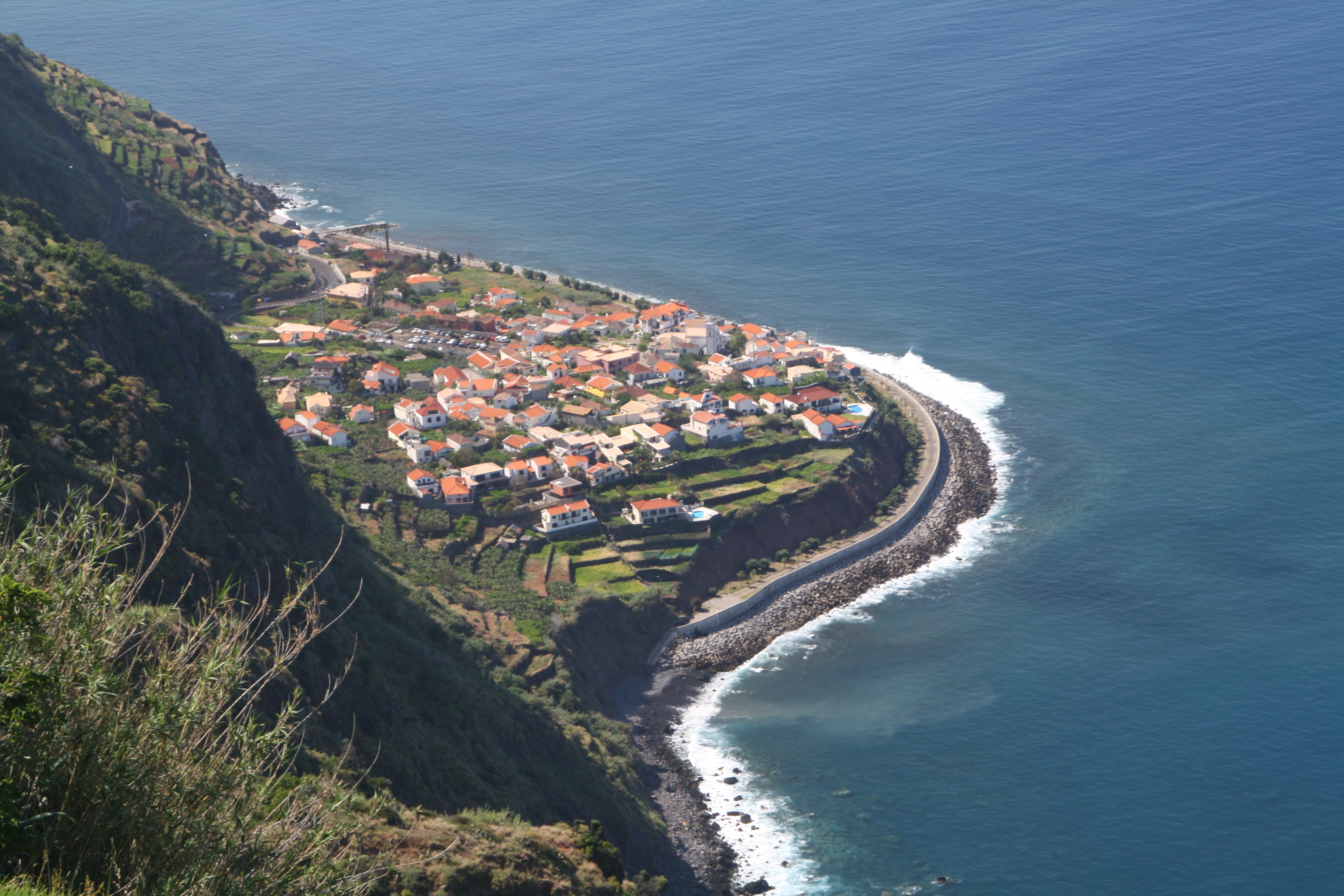 Jardim do Mar, Madeira